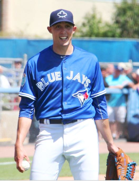 Aaron Sanchez receiving praise for a great pitching performance during Spring Training on March 23, 2016